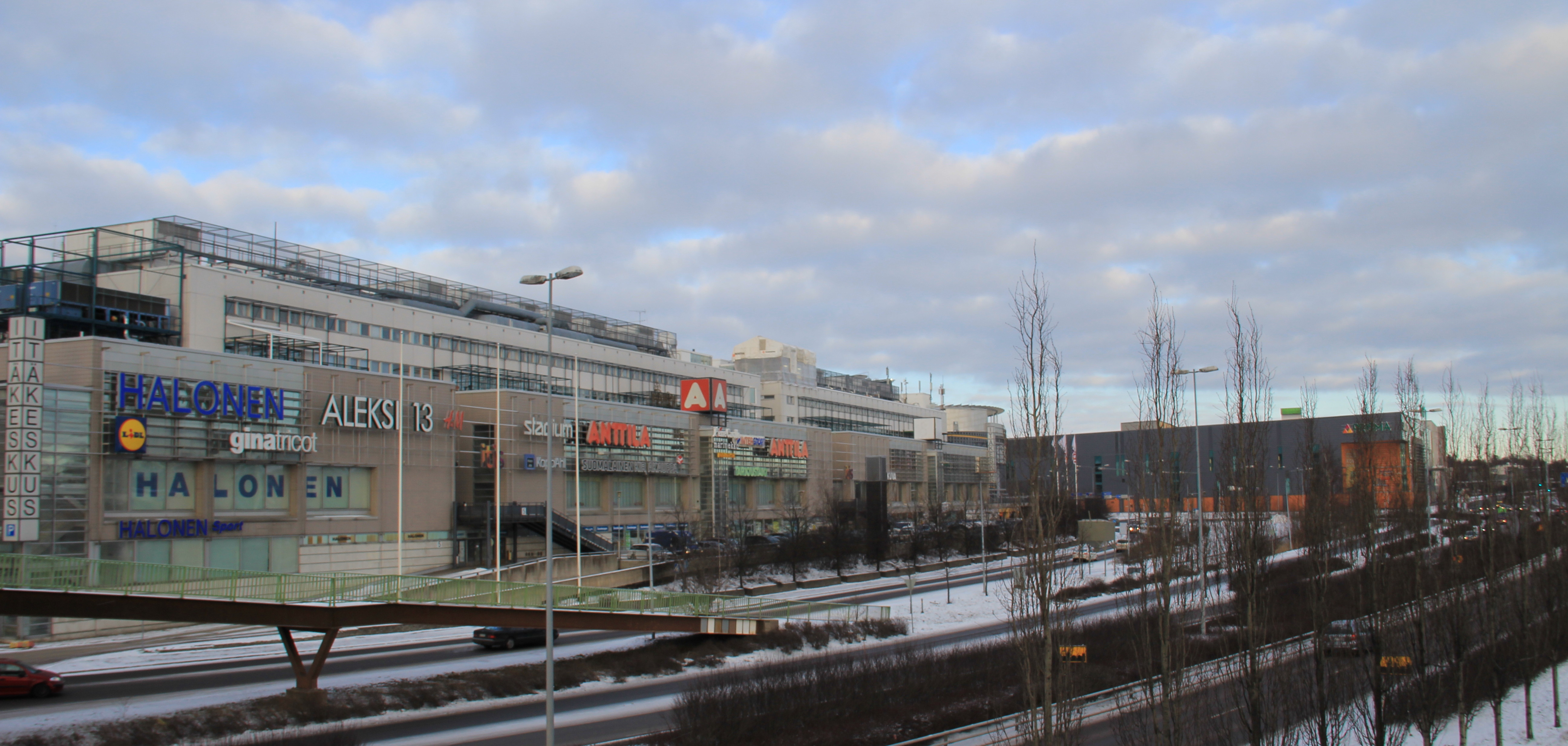 Shopping mall Itis in Helsinki, Finland. Photo taken from pedestrian bridge over Itäväylä. This part of the mall was completed in 1992, it was designed mainly by architect Juhani Pallasmaa.